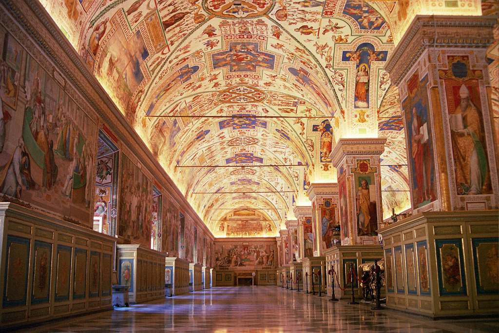 Vatican City, Vatican Museum, Salone sistino.